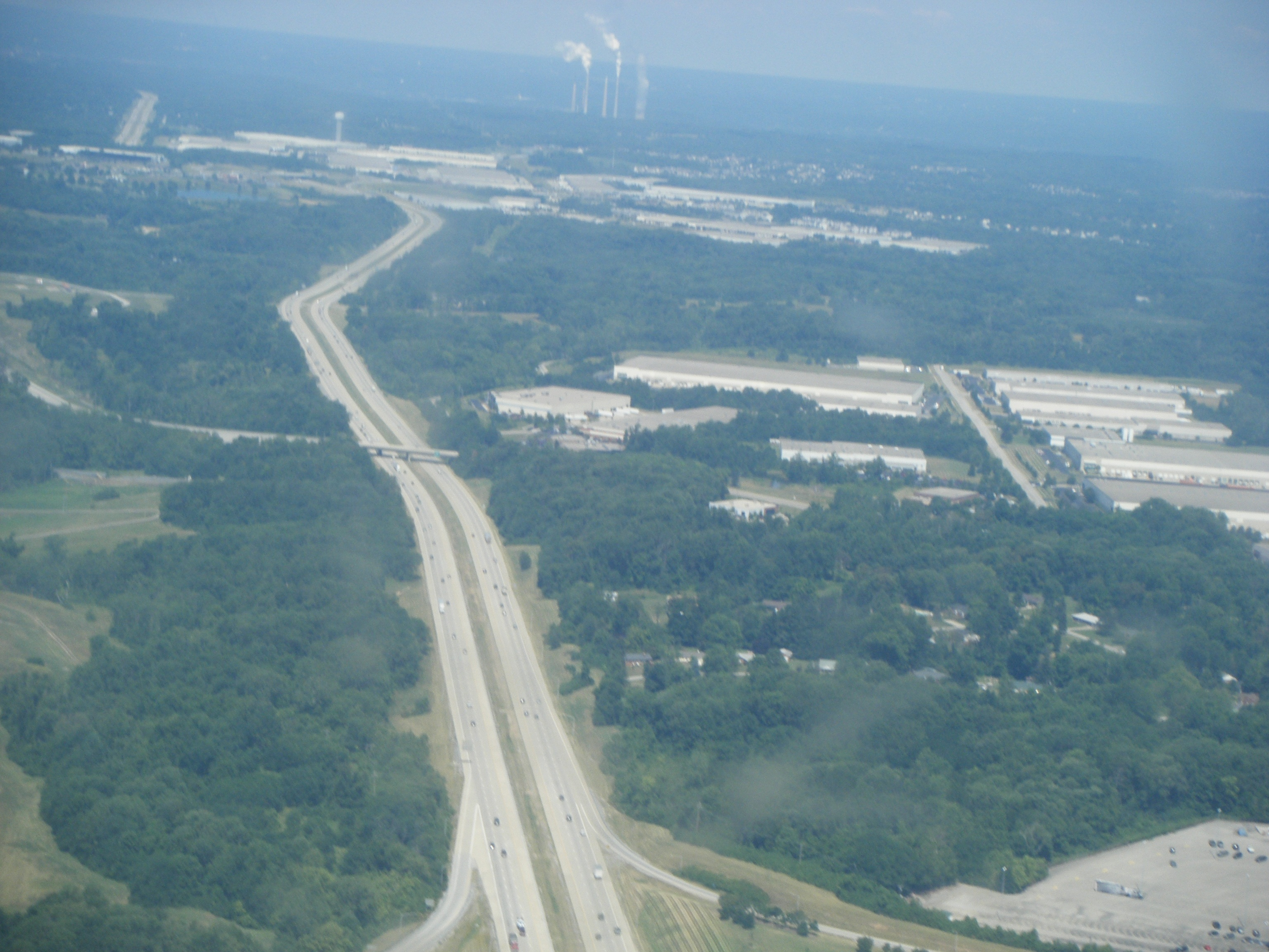 Looking west along Interstate 275 from an airplane departing Cincinnati/Northern Kentucky International Airport in Hebron, Kentucky